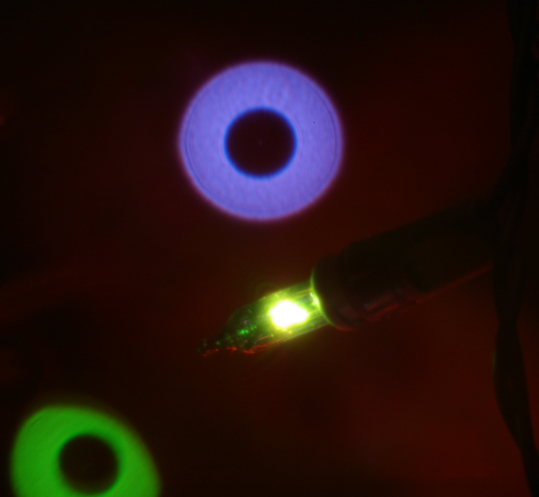 Bokeh from a Mirror lens. The 2 lights that are out of focus show the classic Catadioptric "doughnut" shape, with the light that is off center showing an additional distortion.